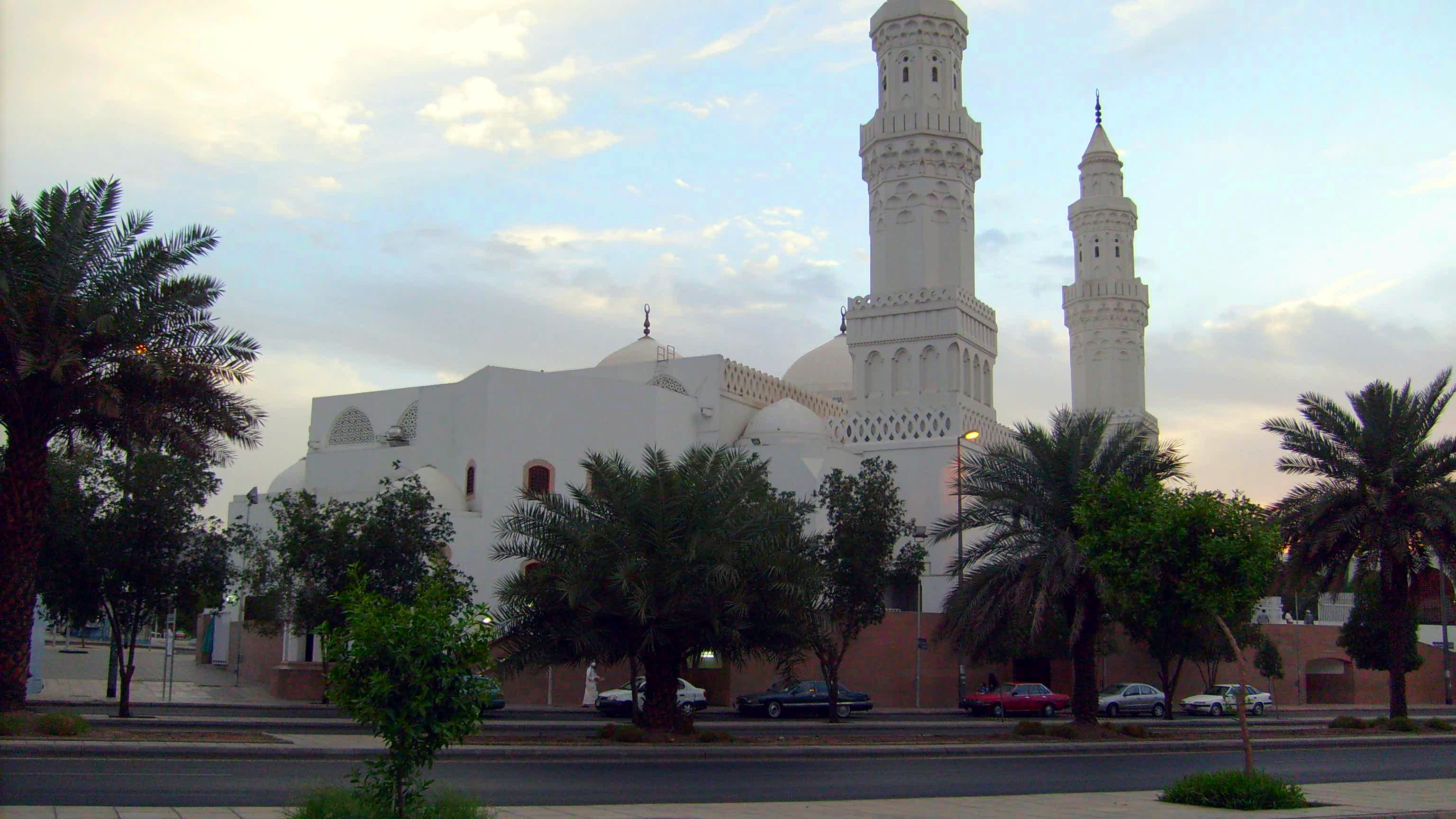 Al-Qiblatin Mosque